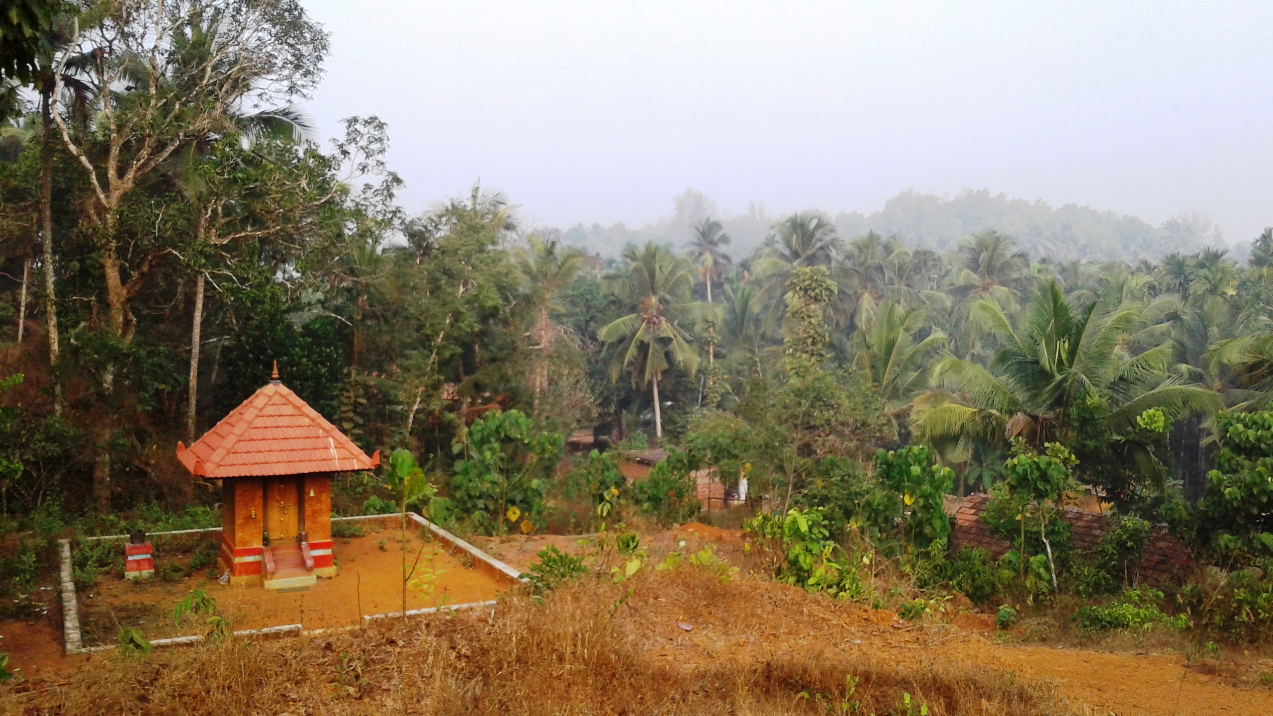 Kumbla, Kasaragaod District, Kerala state, India.